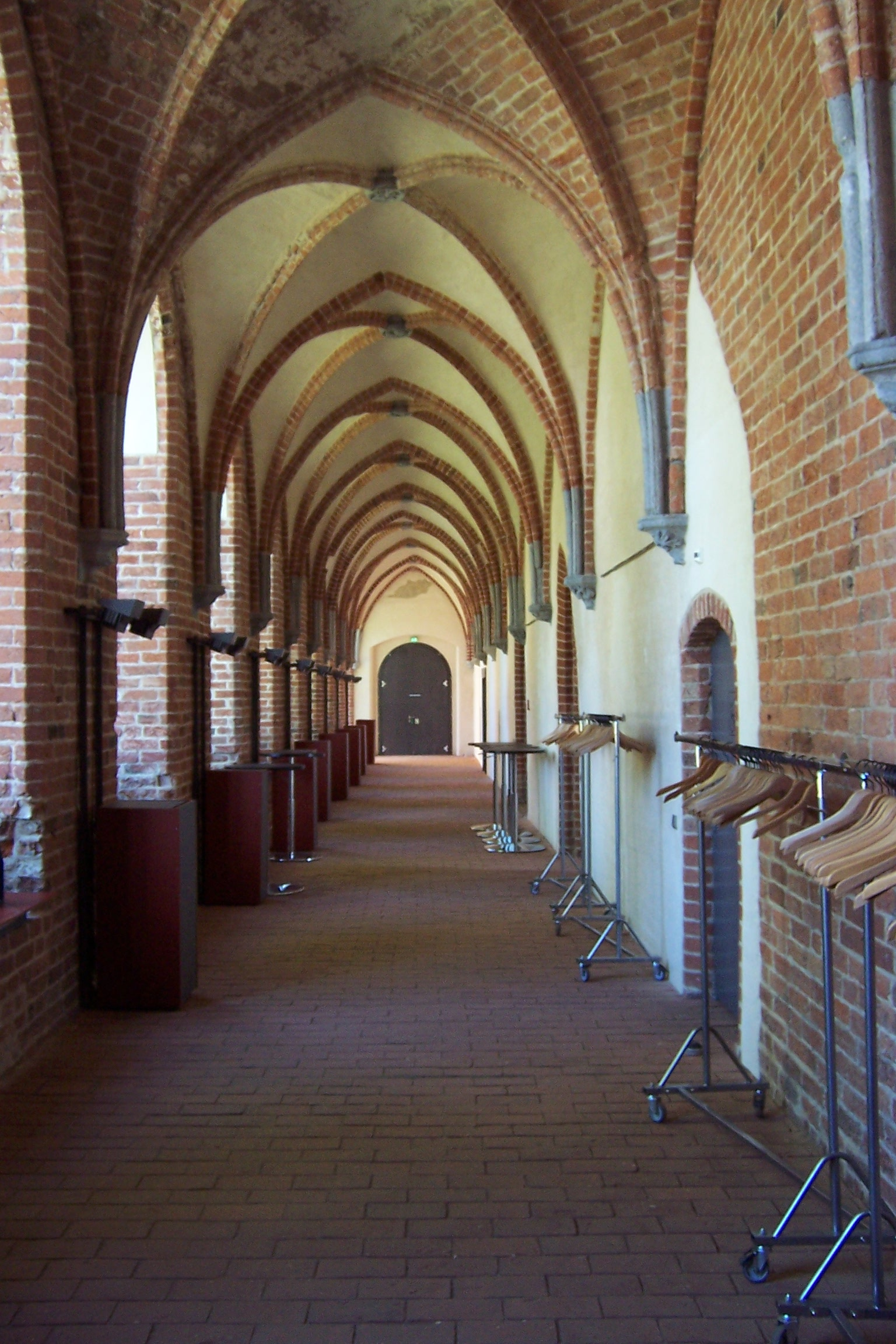 Cloister of former Cistercian nun's convent, Zarrentin am Schaalsee